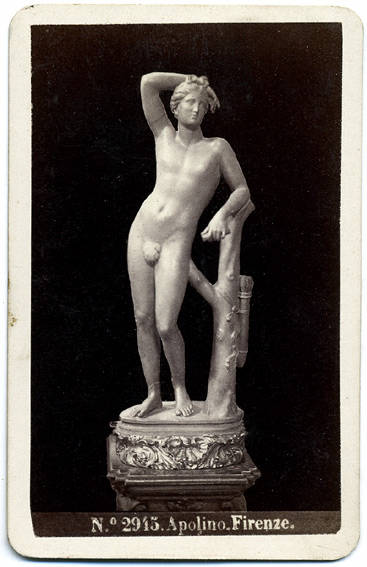 Giorgio Sommer (1834-1914) - "Apollino. (Florence)". Catalogue number: 2945. Picture of a hellenistic sculpture, at the Galleria degli Uffizi in Florence.